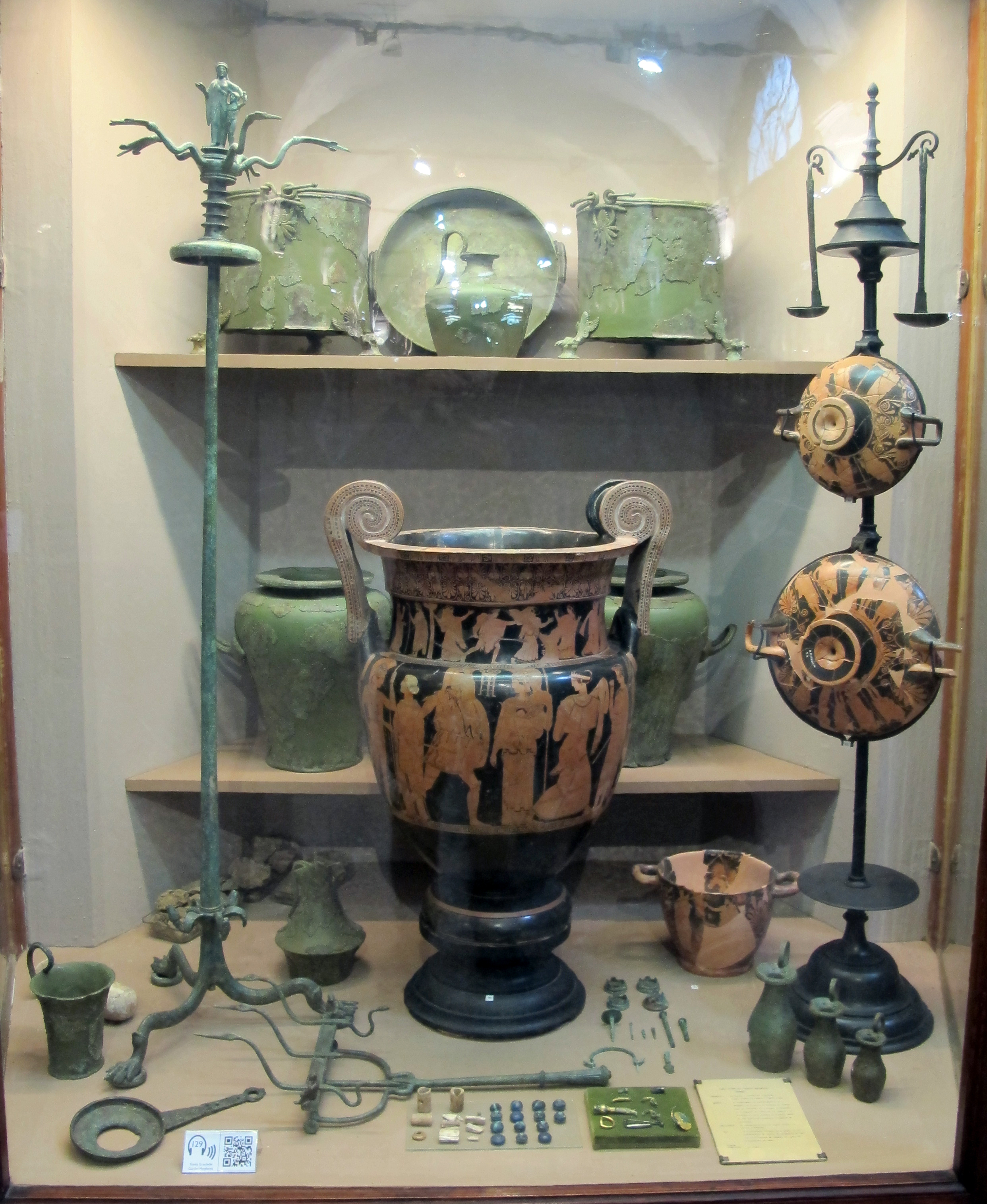 Ancient Greek pottery in the Archeological Museum of Bologna